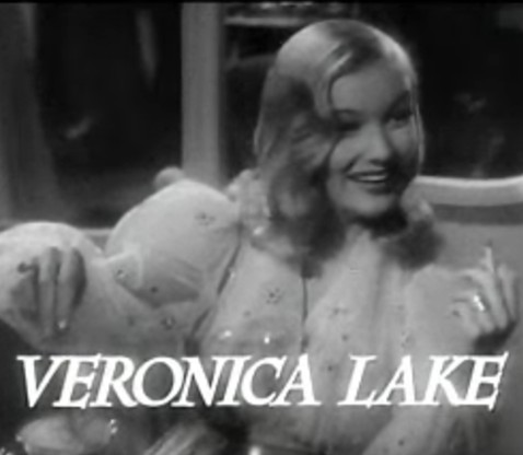 Cropped screenshot of Veronica Lake from Sullivan's Travels.